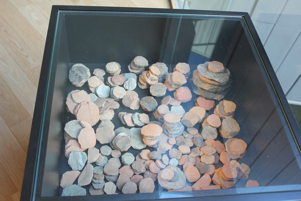 Fitxes, peces discoïdals del Museu Ibèric de ca n'Oliver